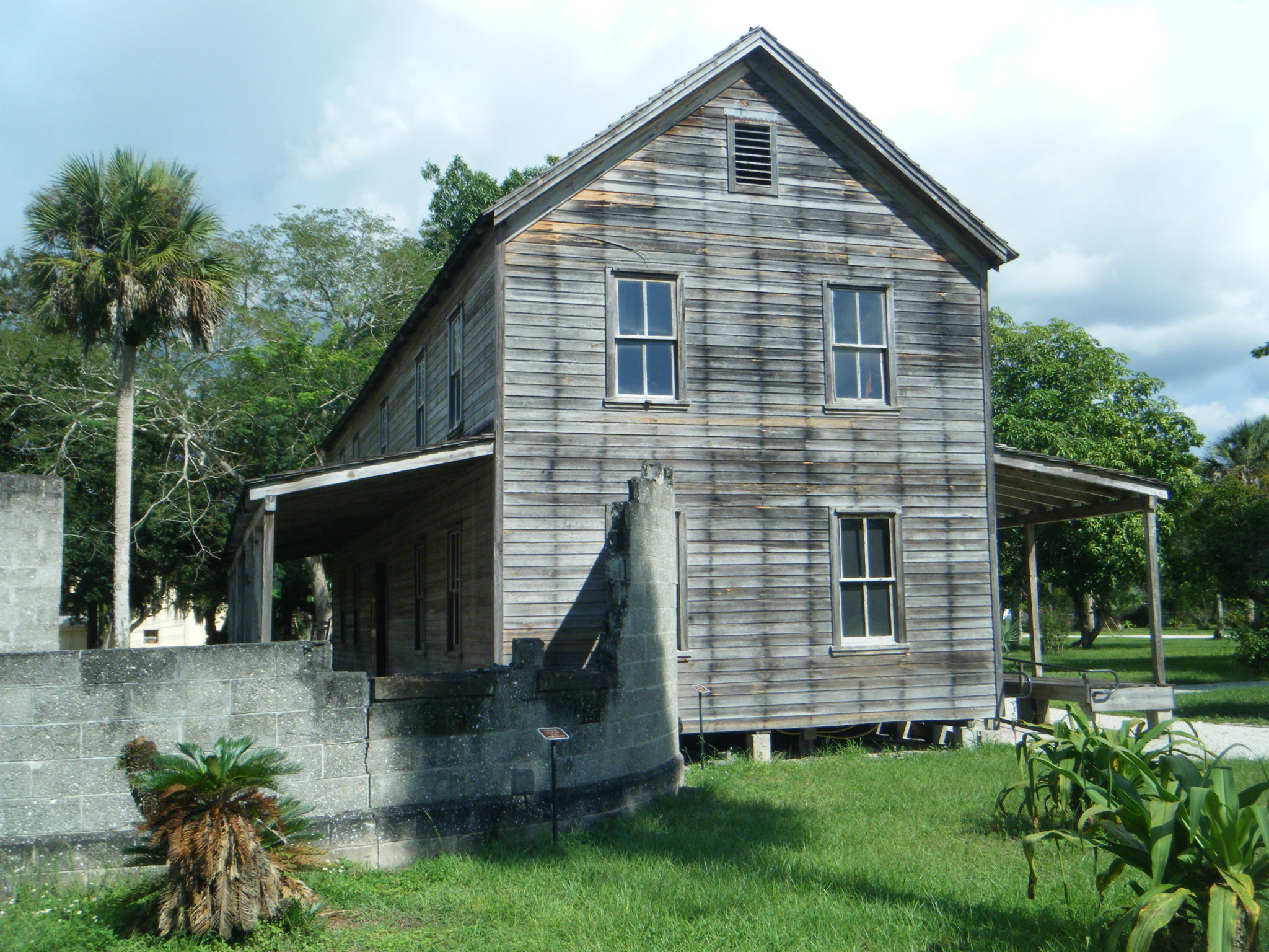 Koreshan Unity Settlement Historic District, U.S. Route 41 at the Estero River Estero, Dr. Teed, (founder or the Koreshans,) house.